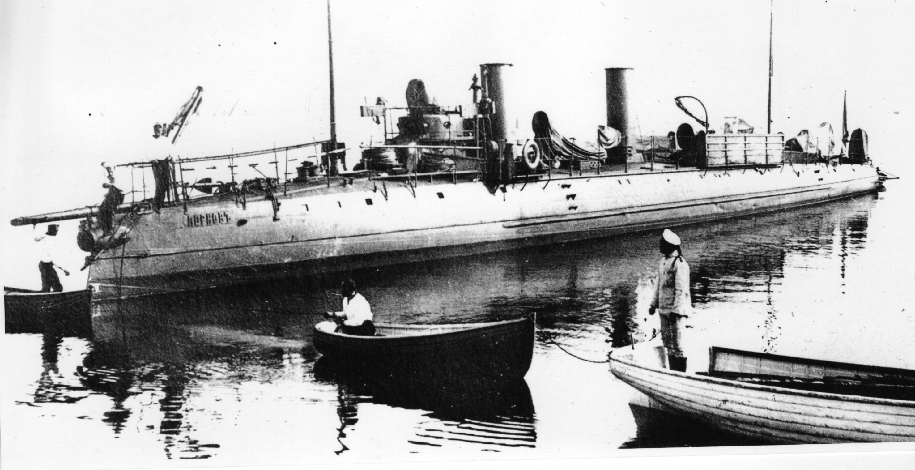 Imperial Russian torpedo boat Pernov.